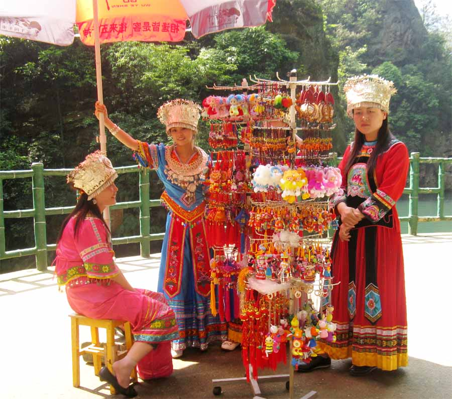 Zhangjiajie